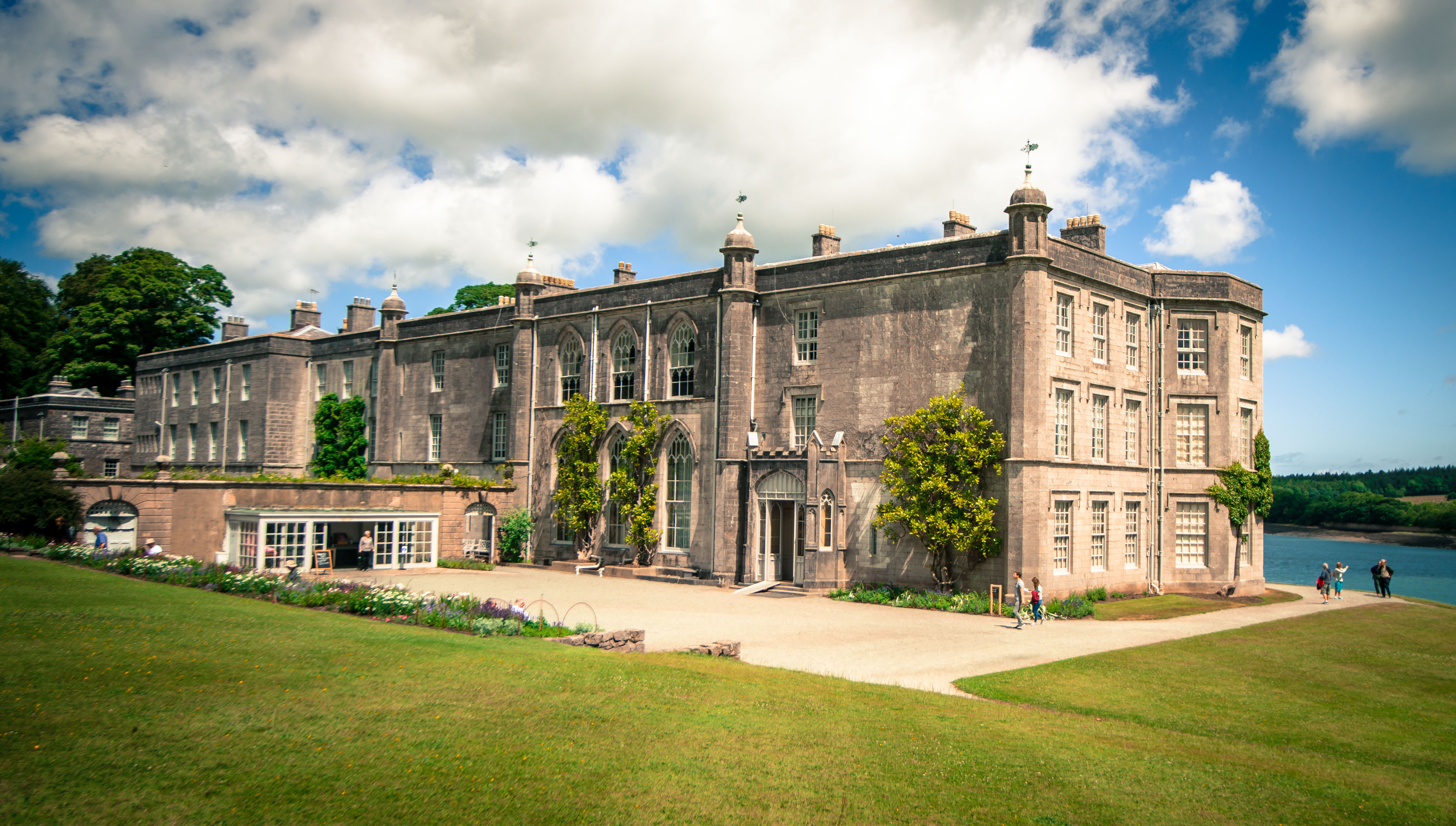 The exterior of Plas Newydd, Anglesey (National Trust)